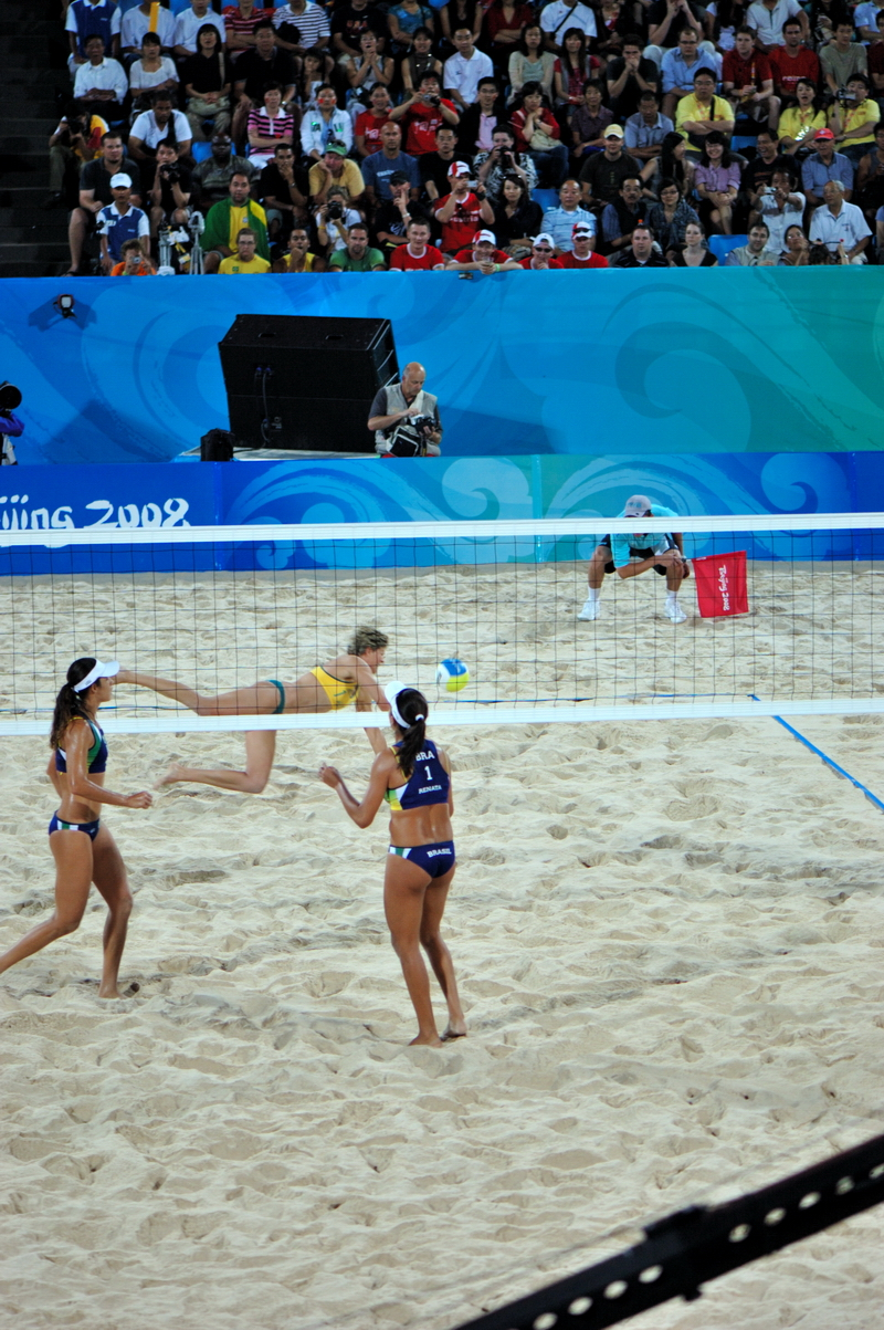 Beijing Olympics, Women's Beach Volleyball, Quarterfinals. Left: Talita Antunes of Brazil; Right: Renata Ribeiro of Brazil. In yellow : Natalie Cook of Australia.